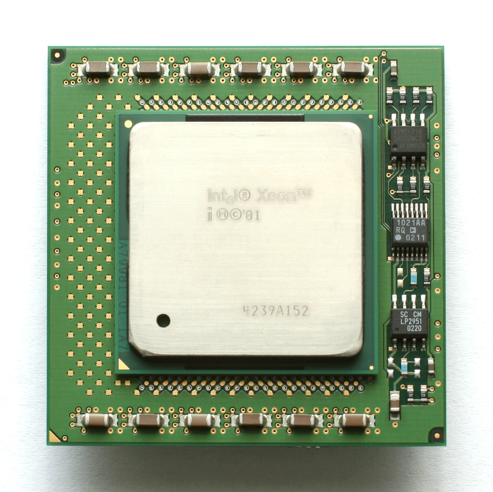 CPU Intel Xeon Prestonia-0 for Socket 603, sSpec: SL6EL (Wrong filename!)